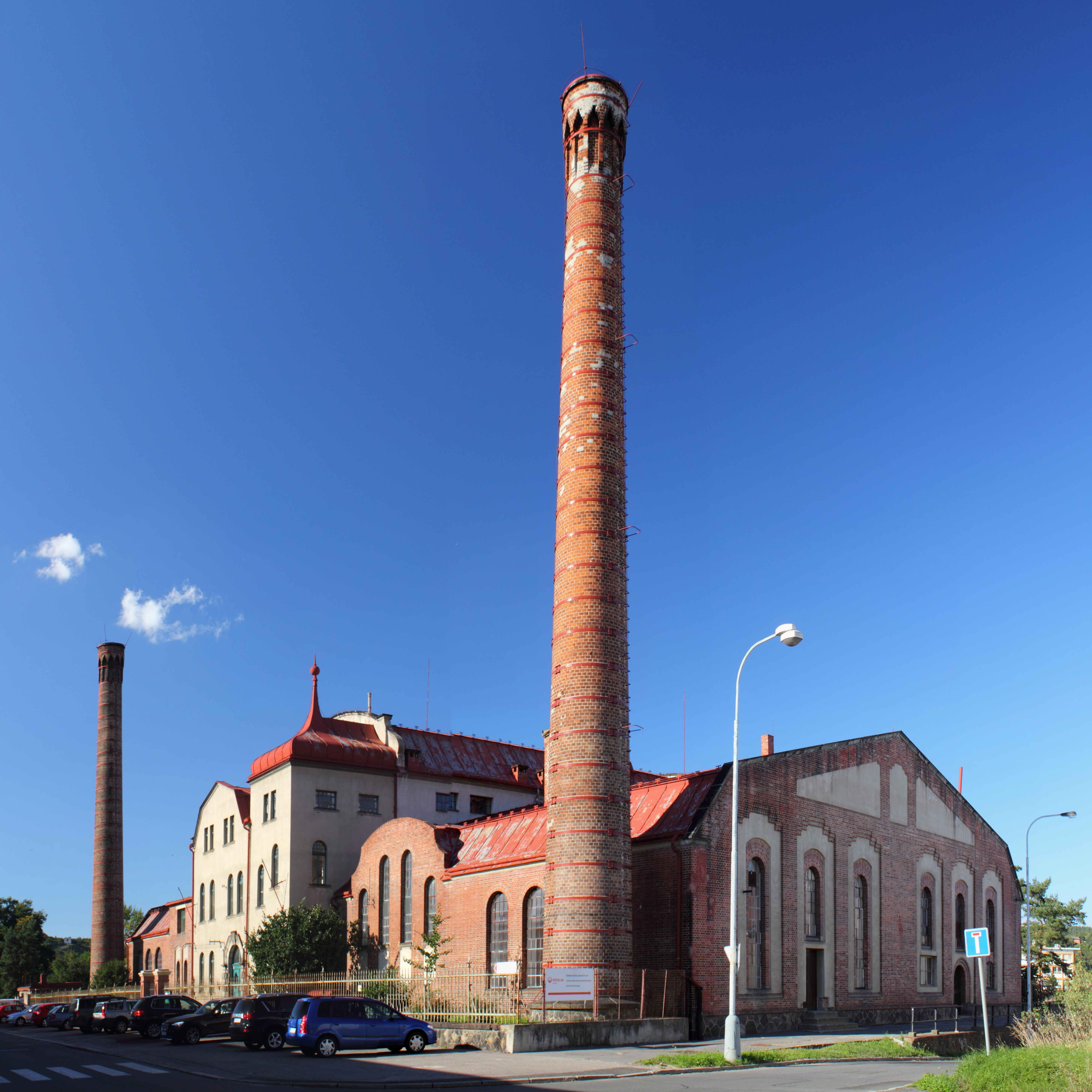 Old wastewater treatment plant (Ecotechnical Museum) - national cultural monument, Bubeneč, Prague.